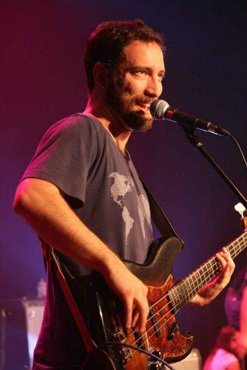 Selim Bass